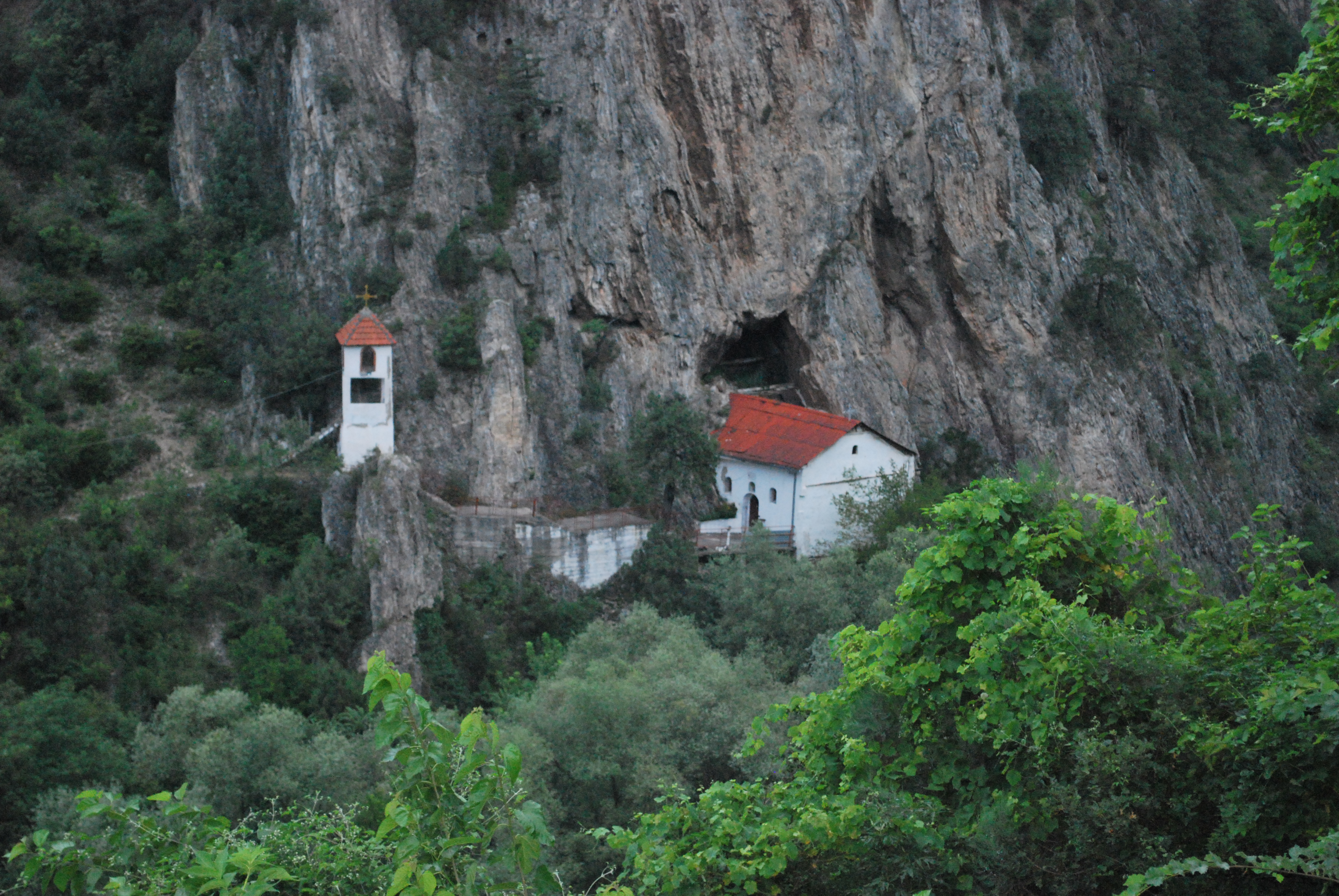 Kožle Monastery, Macedonia